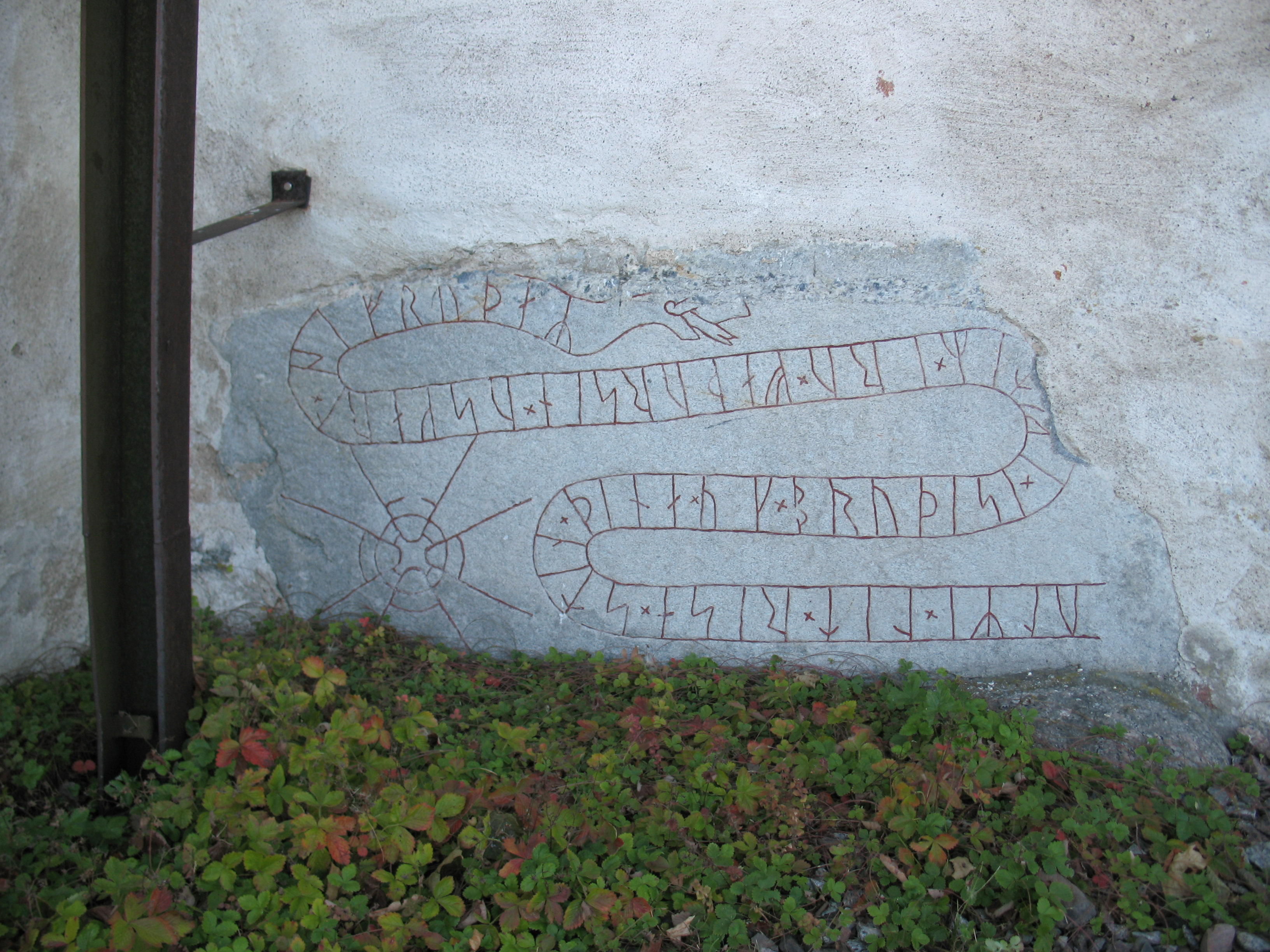 Runestone U 335 at the church of Orkesta, Vallentuna municipality.